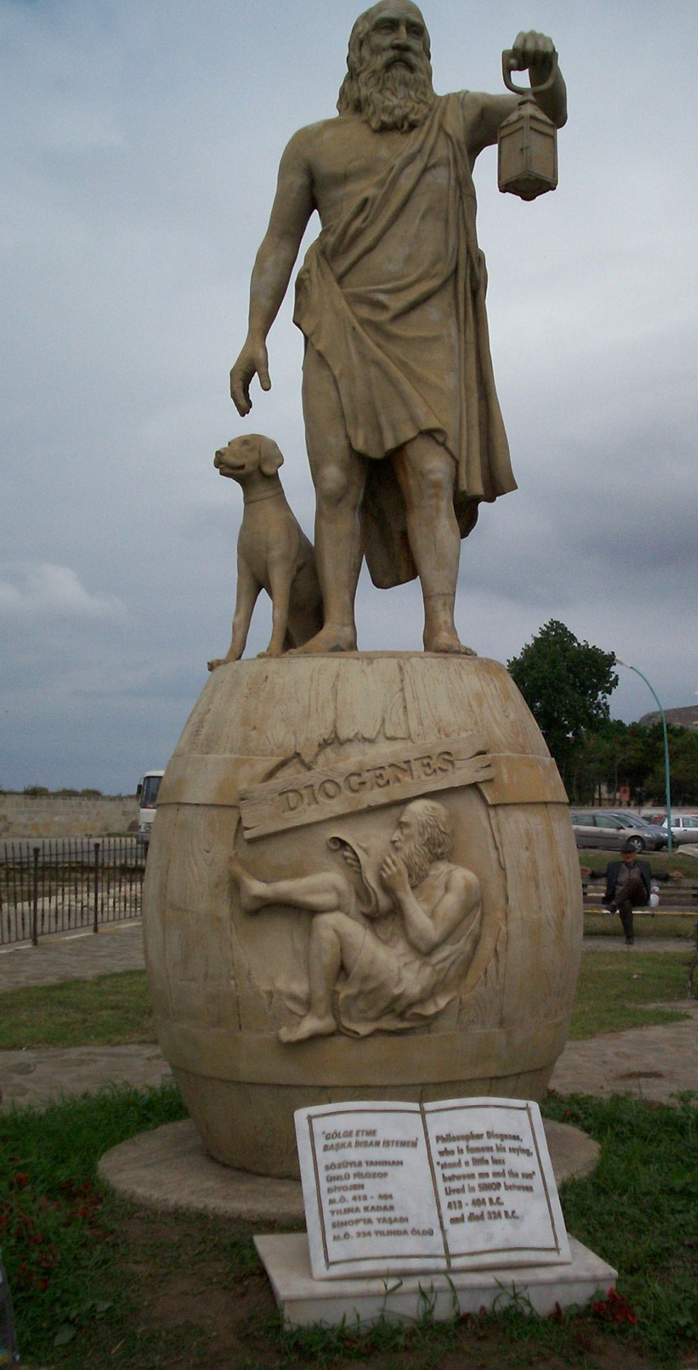 Statue of Diogenes, Sinop